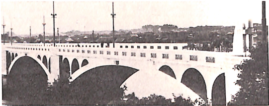 This is Kaimon bridge in Ibaraki prefecture, Japan.